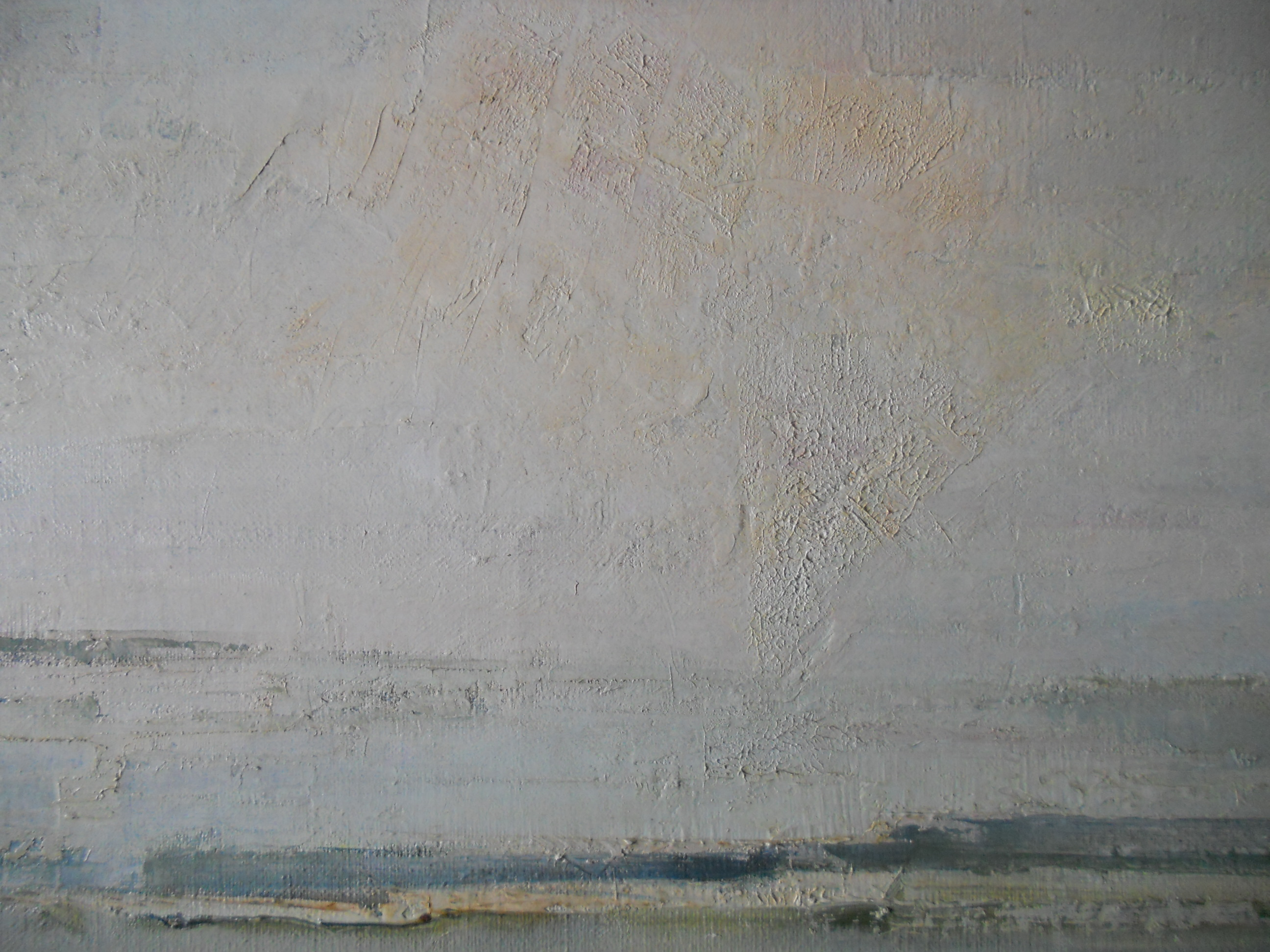 Albert Muis, oil on canvas, 65cm x 50cm